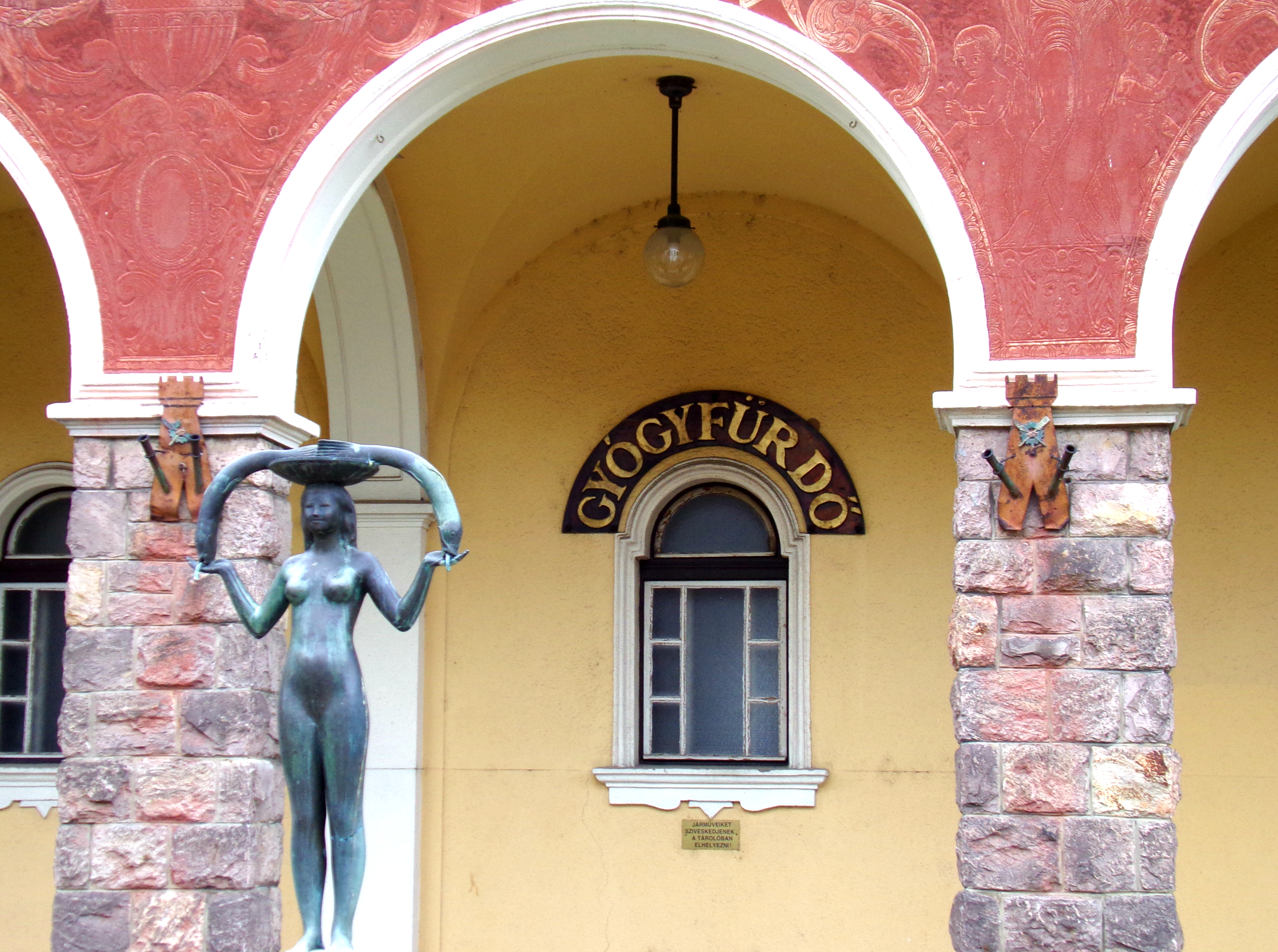 The building of thermal bath